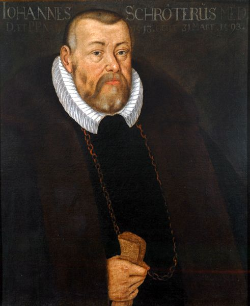 Johannes von Schroeter (1513-1593) German physicians